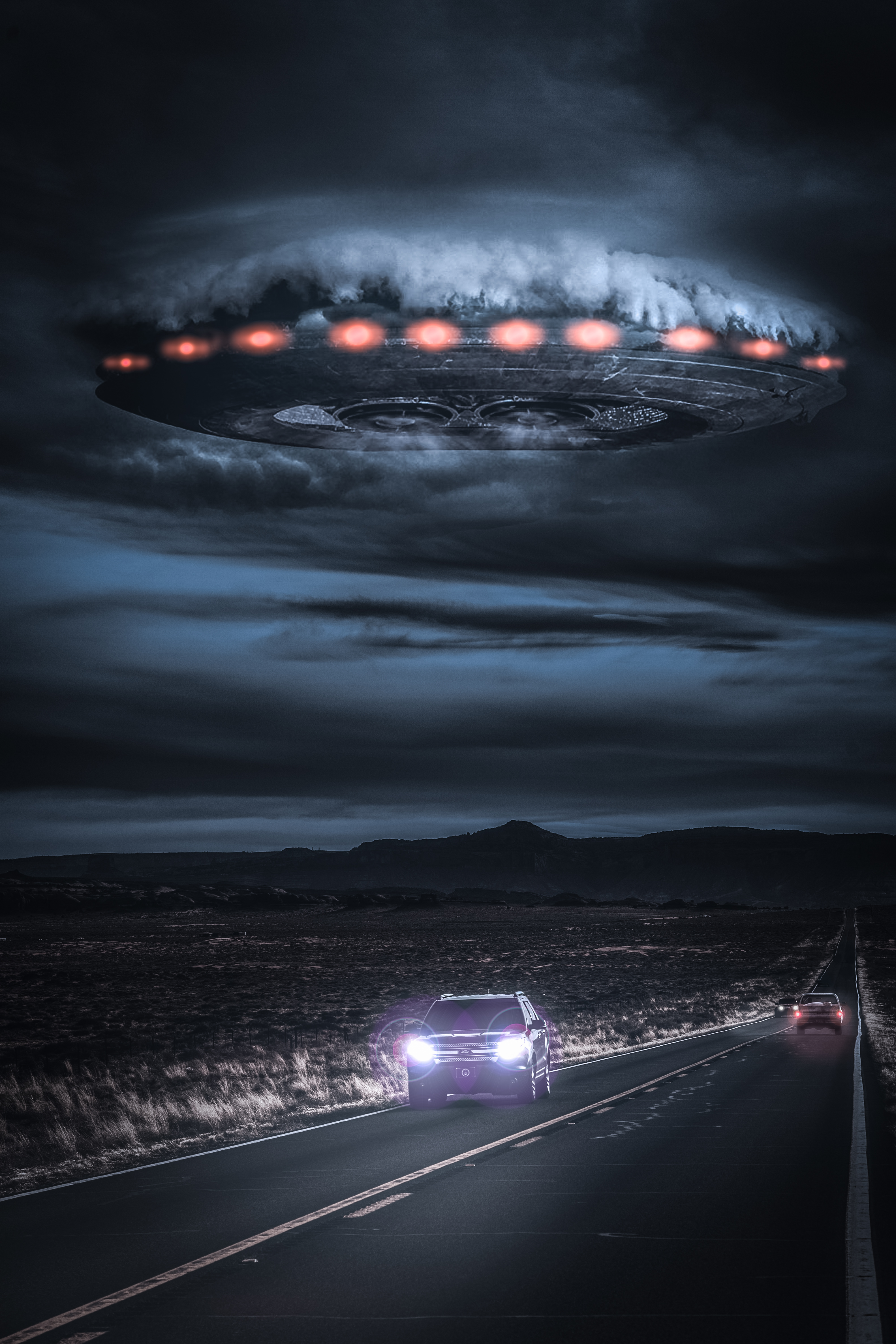 Alien spaceship breaking through the clouds over a desert highway